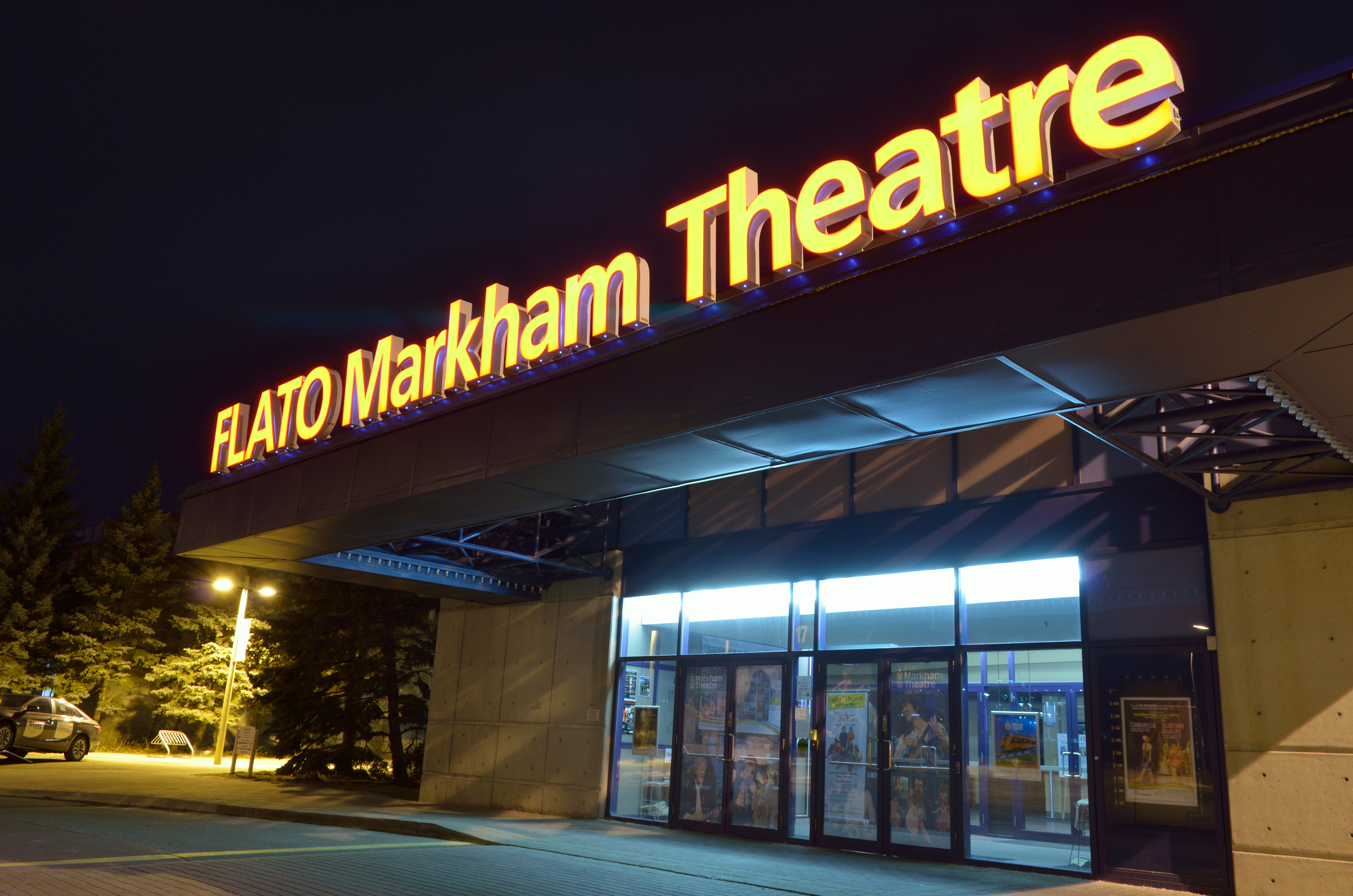 Markham Theatre